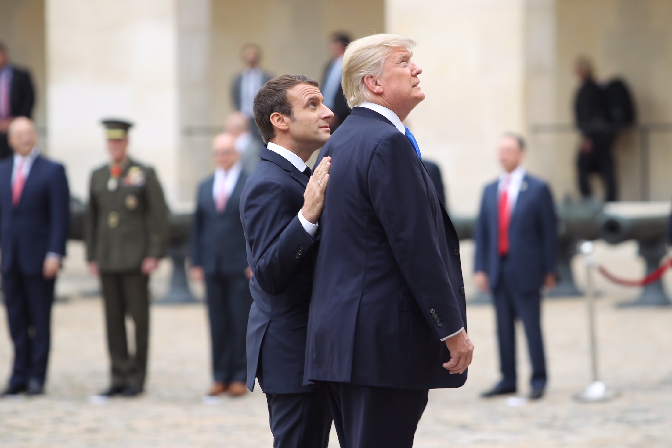 President Trump, President Macron, First Ladies Melania Trump and Brigitte Macron at Les Invalides this afternoon #POTUSinFrance 🇫🇷🇺🇸